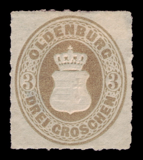 Postage stamp with coats of arms of Oldenburg inside an oval, perforation: rouletted 11². Ausgabepreis: 3 Groschen First Day of Issue / Erstausgabetag: Juli 1862 Michel-Katalog-Nr: 19 (Oldenburg)